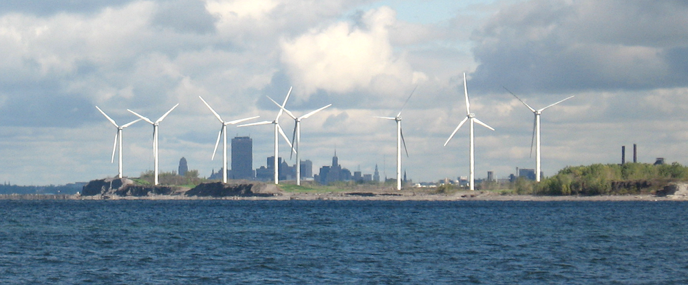 Steel Winds I, windfarm project in Lackawanna, NY as seen from Lake Erie